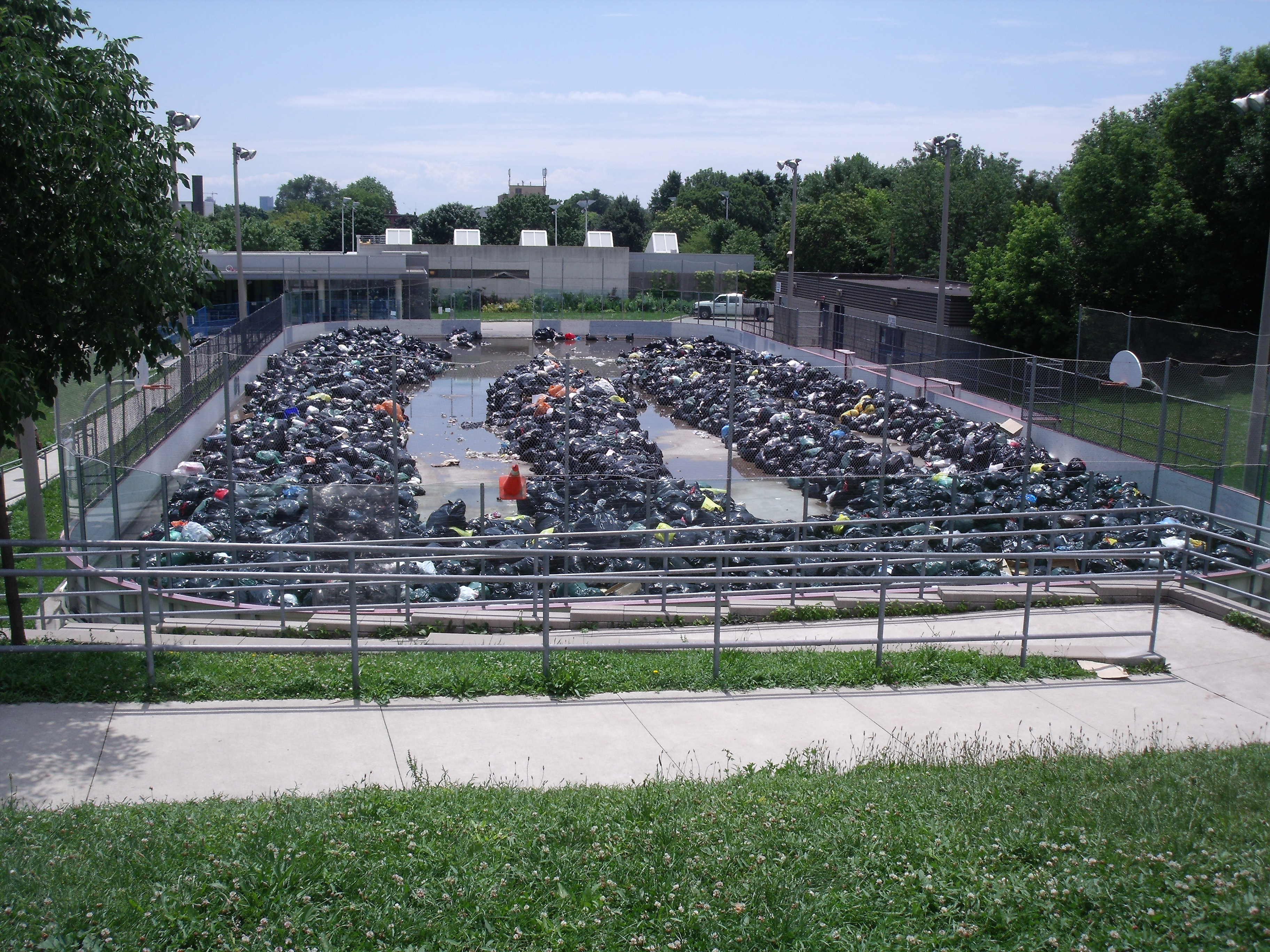 Christie Pits dump site